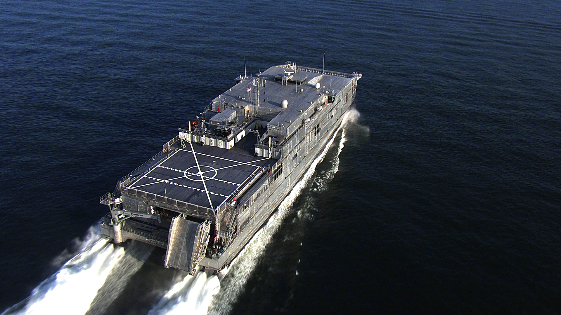 140725-N-EW716-002 GULF OF MEXICO (July 25, 2014) The joint high speed vessel USNS Fall River (JHSV 4) completes acceptance trials testing and evaluations in the Gulf of Mexico. The ship's trials included dockside testing to clear the ship for sea and at-sea trials during which the Navy's Board of Inspection and Survey (INSURV) evaluated and demonstrated the performance of Fall River major systems. (U.S. Navy photo/Released)